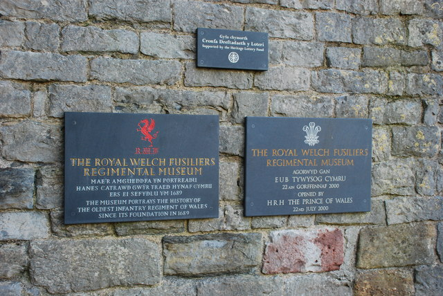 Amgueddfa'r Ffiwsilwyr Brenhinol Cymreig - Royal Welch Fusiliers Museum. Plaques commemorating the opening of 1020724